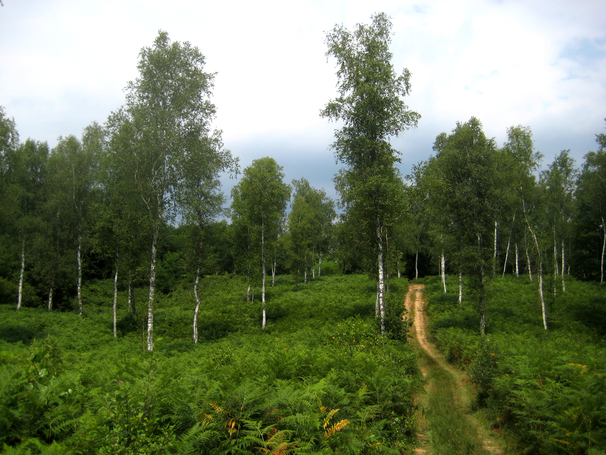 "Steljnik" in Bela Krajina, Slovenia